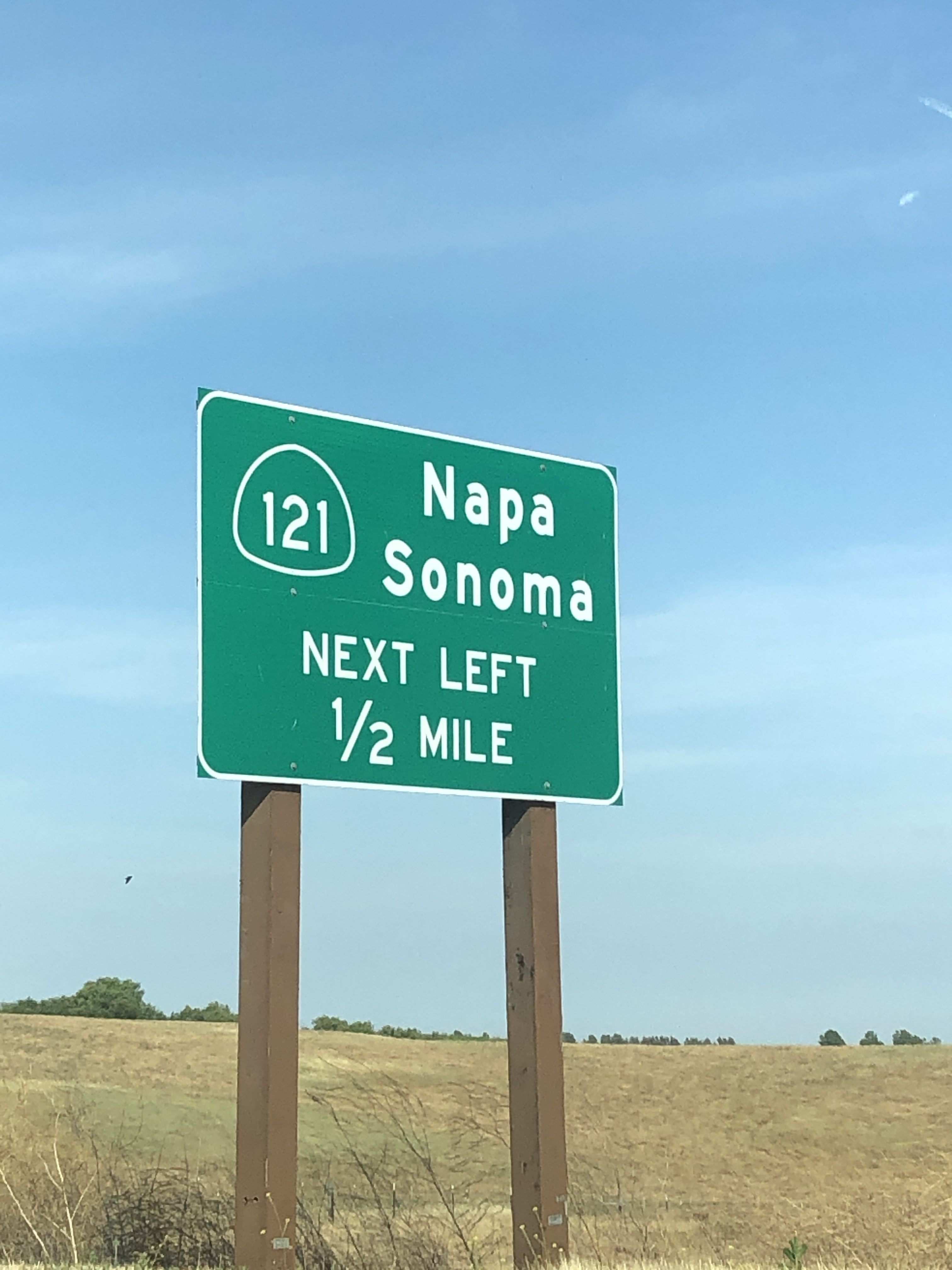 The sign on Highway 37 for the Napa and Sonoma exit in Sears Point, California